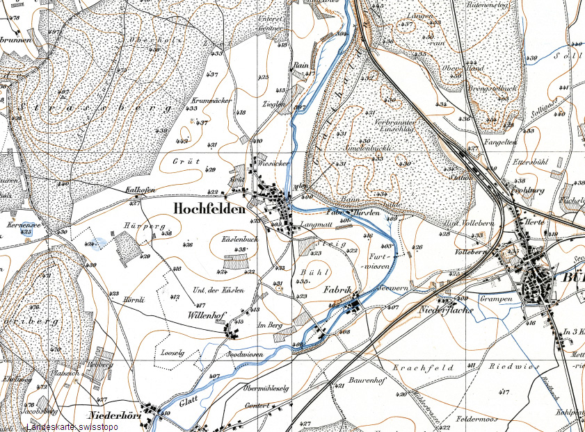 Hochfelden: Segment from the Siegfried map from 1880, Scale 1:25'000